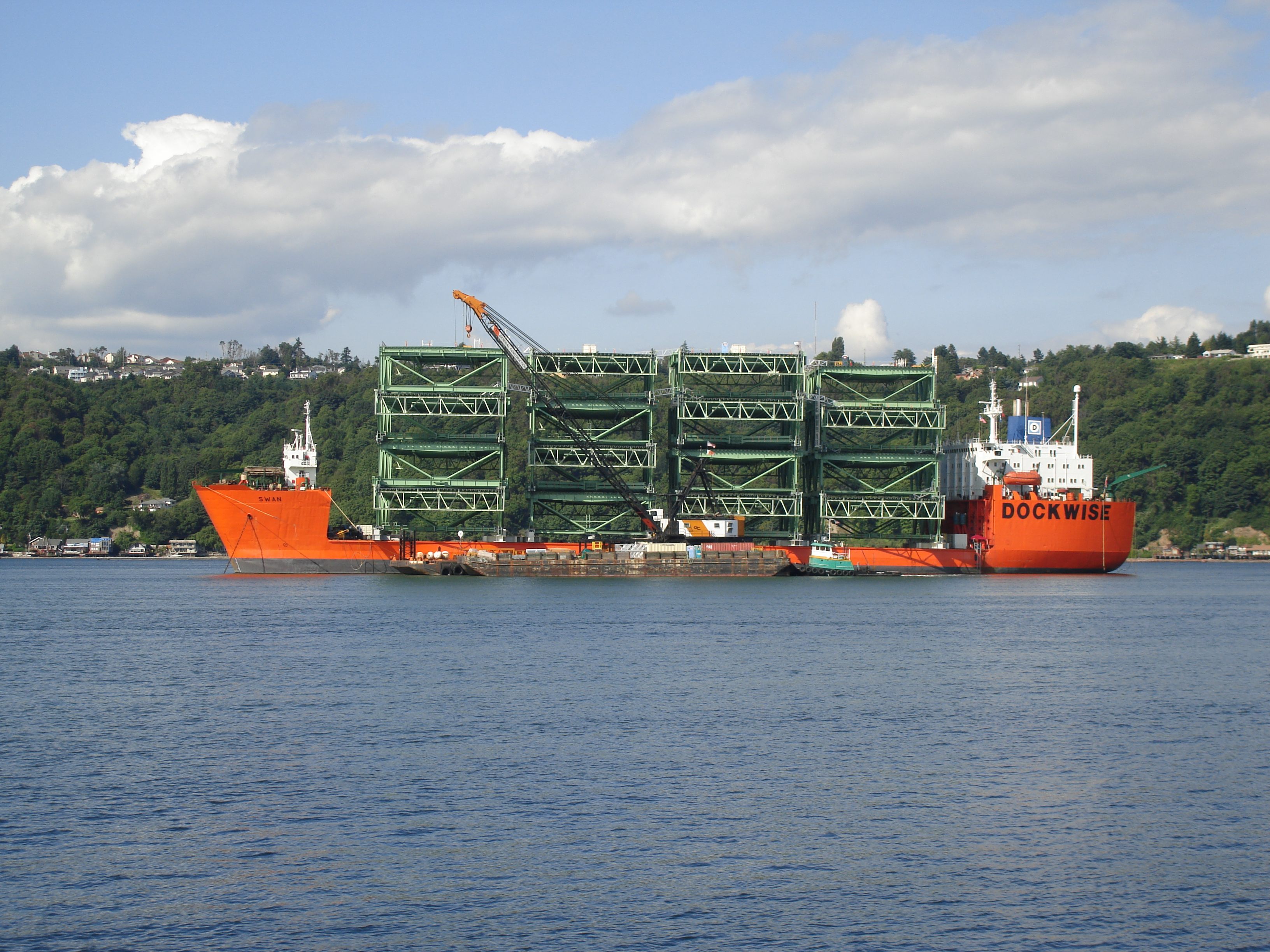 The heavy-lift ship Swan carrying sections of the new Tacoma bridge from Seoul, South Korea Information about Swan may be found at IMO 8001000.A ship can change name and flag state through time, but the IMO number remains the same through the hull's entire lifetime. As a result, it can be useful to identify a ship by using the IMO number.